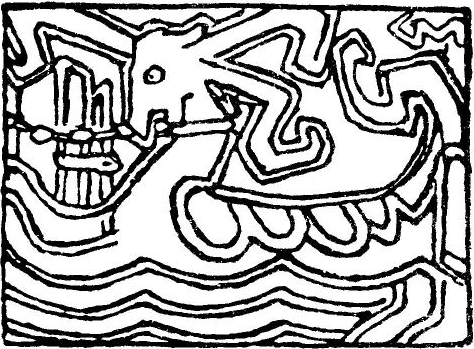 Gerhard Munthe: Illustration for Harald Hårfagres saga. Snorre 1899-edition. vignett 5